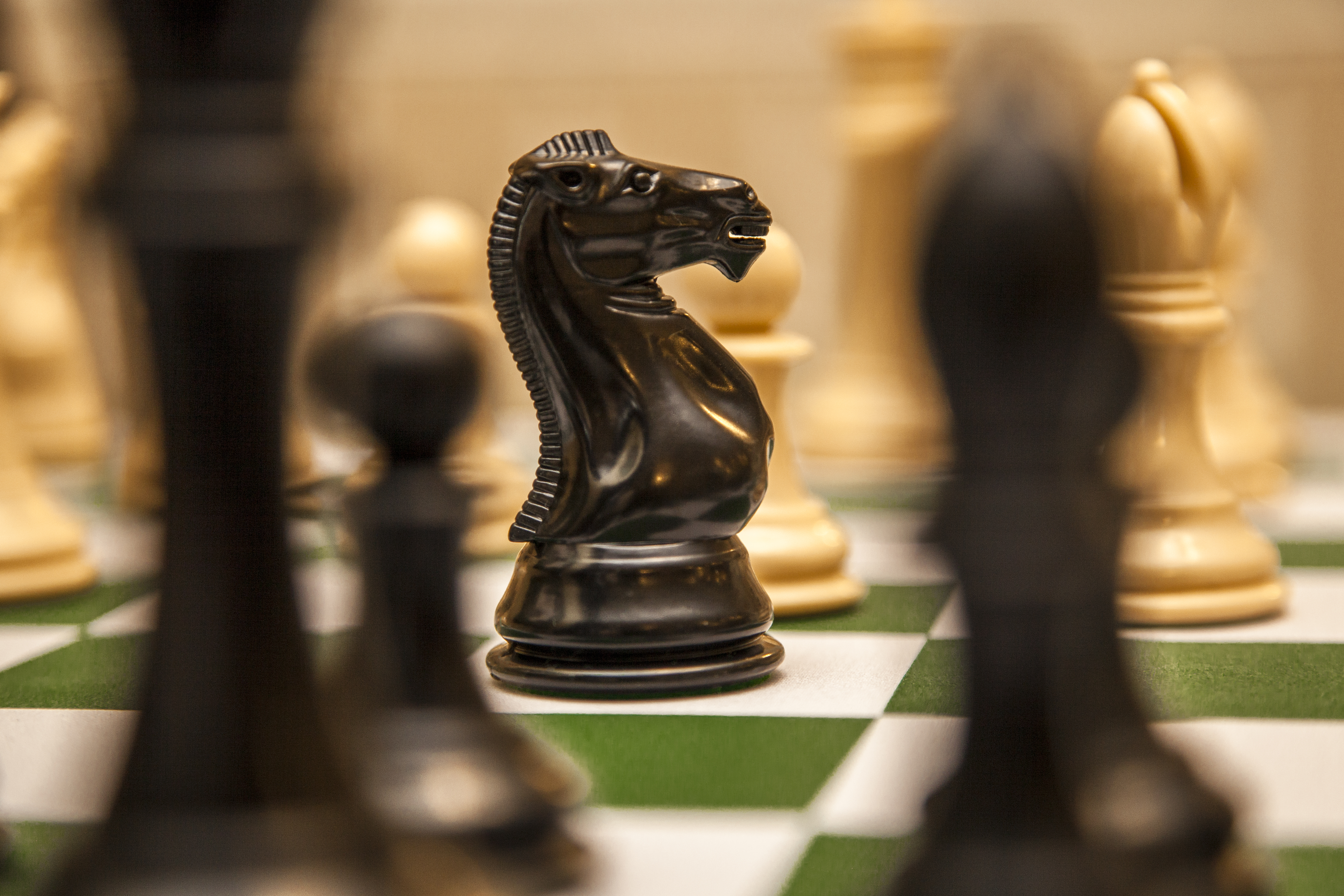 A knight in a chess game with other Staunton chessmen on a green and white checkered chess board.